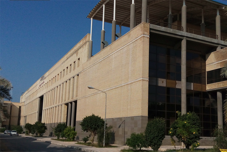 school of Petroleum, Gas and Petrochemical Engineering at persian gulf university